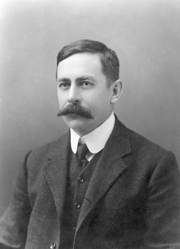 Photograph of Littleton Groom, Australian politician.